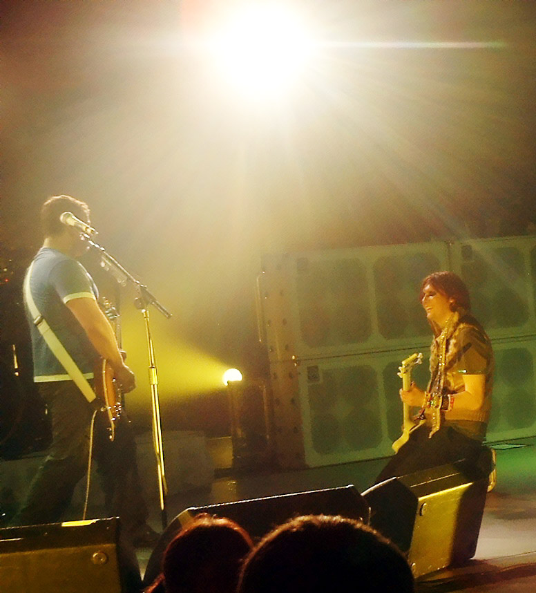 Manic Street Preachers live in London